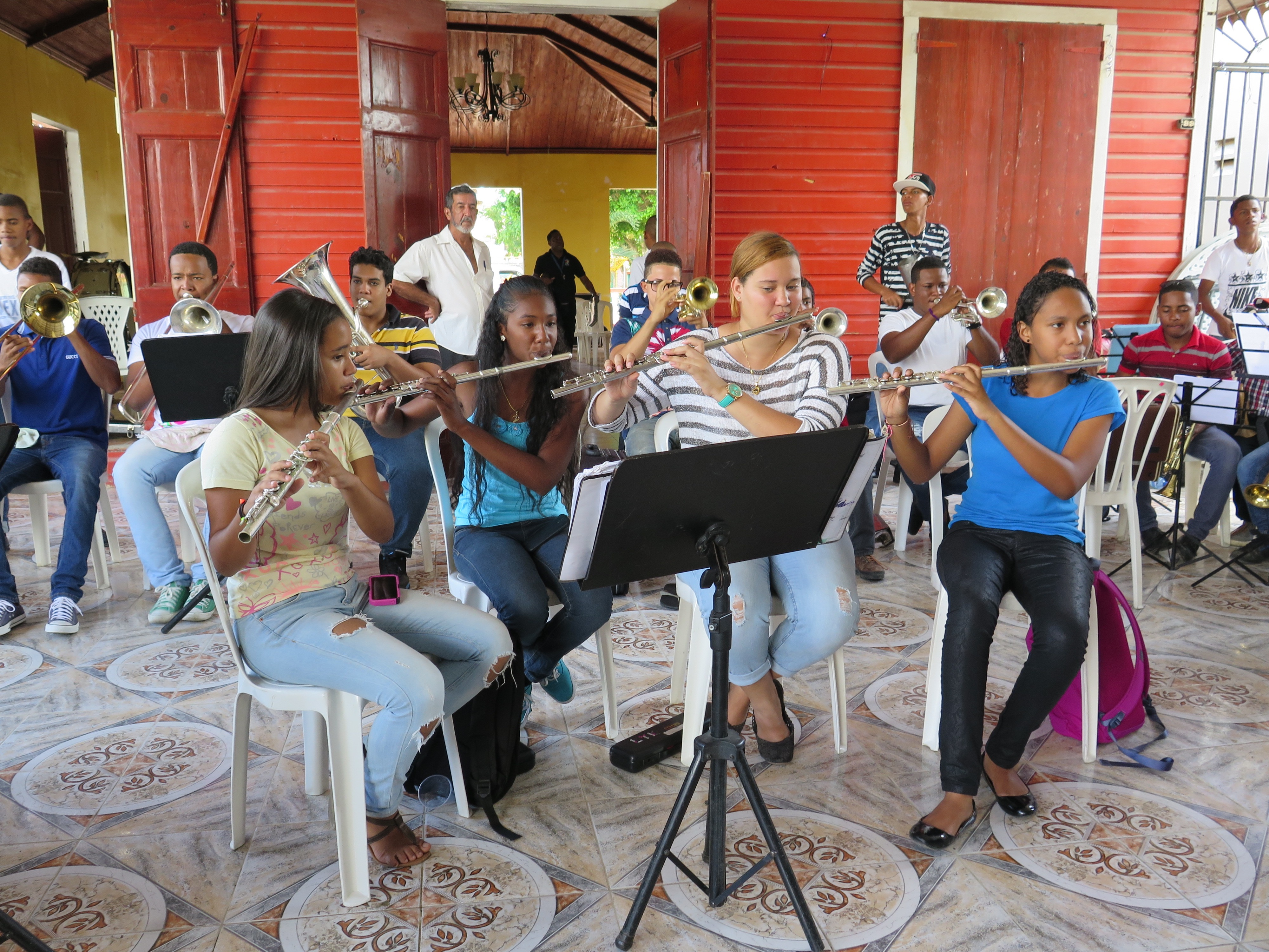 Youth Orchestra in Santo Domingo